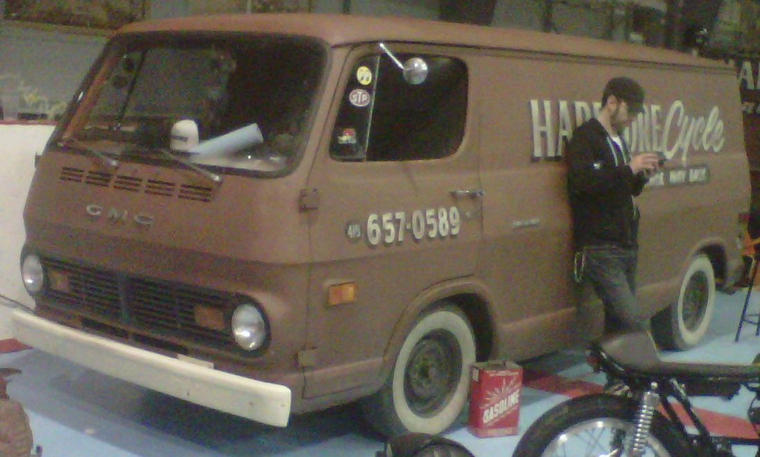 GMC Handi-Van photographed in Laval, Quebec, Canada at the Bike & Tattoo Show 2013.